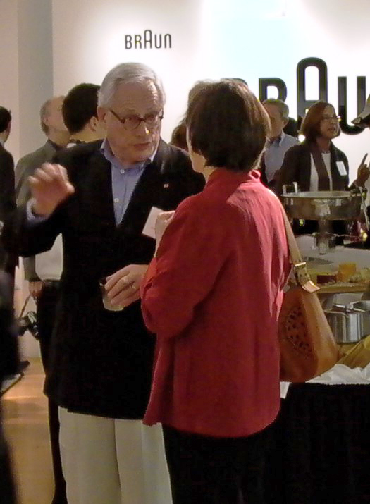 Professor Dieter Rams at the reception for the 50th Anniversary of Braun Innovation Exhibition at Boston's Massachusetts College of Art on 30 November 2005.